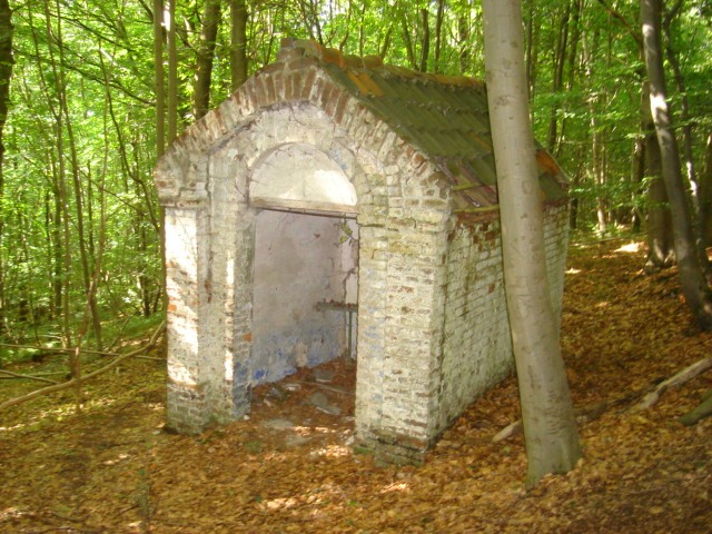 Chapel called "Juffrouwkapel" (Maiden Chapel) at the Raspaillebos wood, Galmaarden, Belgium. The interior of the chapel appeared heavily vandalised, including fragments of a smashed statue of Our Lady. Sony Cybershot DSC-S600 f=5.9mm f/3.2 at 1/40s with flash, colour corrected in Gimp 2.6.